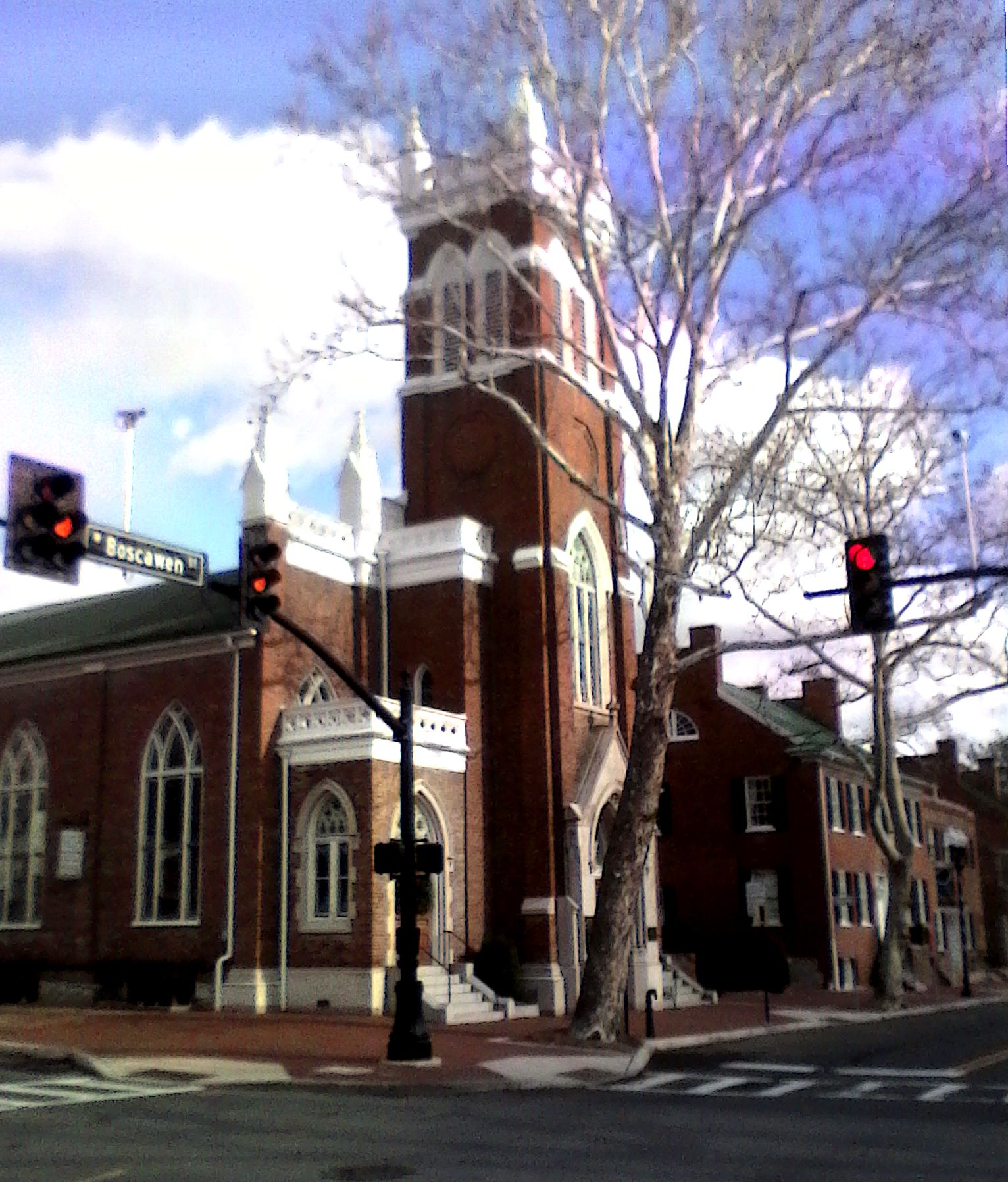 Christ Episcopal Church Winchester street view